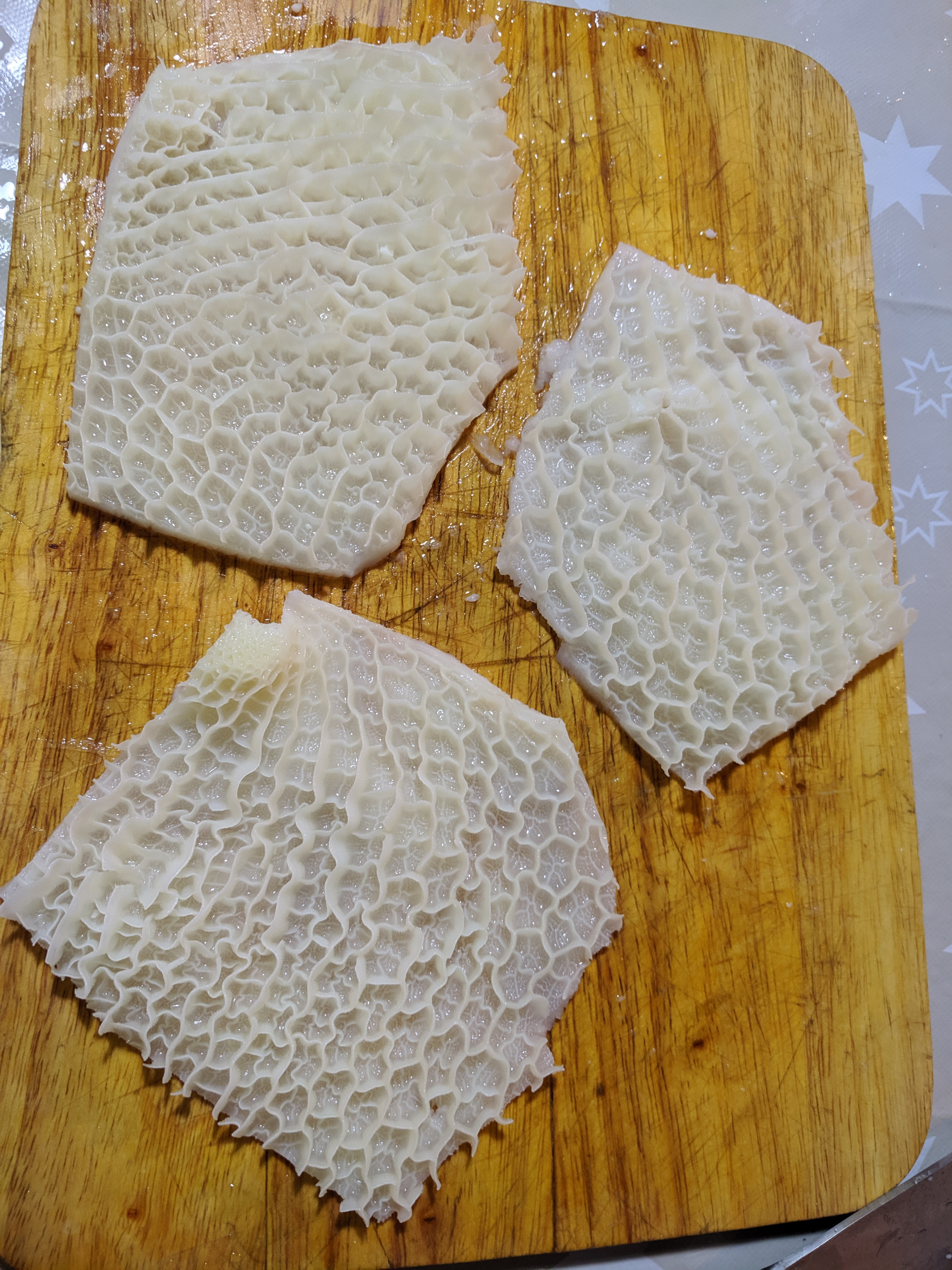 Reticulum (anatomy)